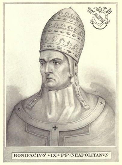 This illustration is from The Lives and Times of the Popes by Chevalier Artaud de Montor, New York: The Catholic Publication Society of America, 1911. It was originally published in 1842.